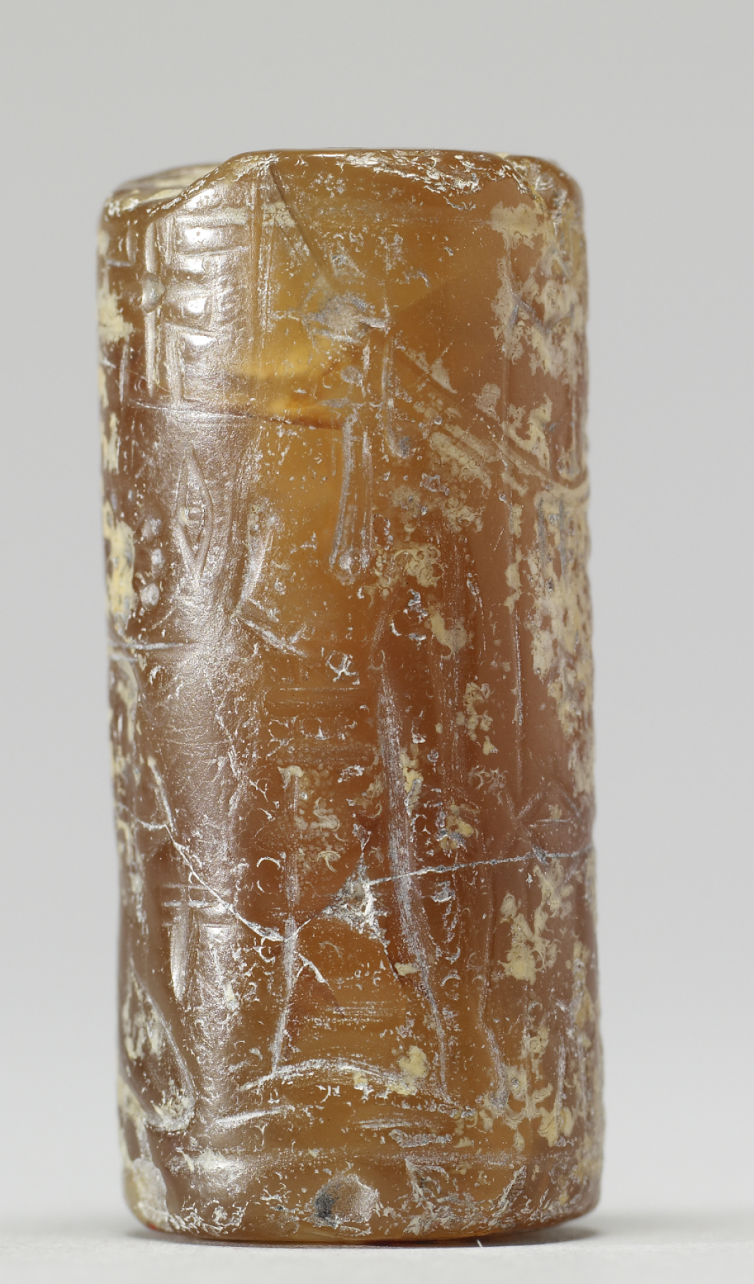 The scene on this seal depicts a standing deity with beard wearing a long, flounced robe. He holds an elongated object in his hand, and the other arm is bent with his hand resting on his midriff. There is a cross in the field in front of him, and a kneeling worshipper before him. Additionally, there are several symbols in the field above the worshipper. The scene also incorporates a cuneiform inscription in seven registers.